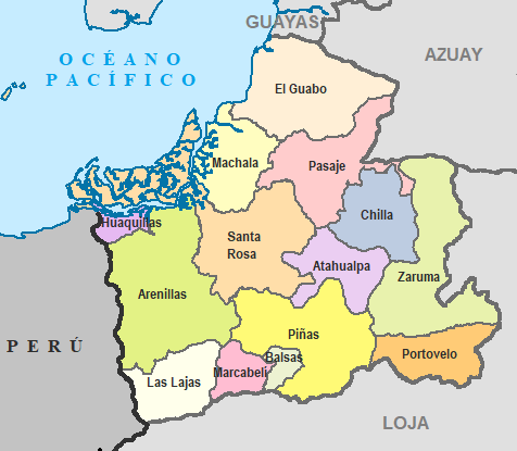 Cantons of El Oro